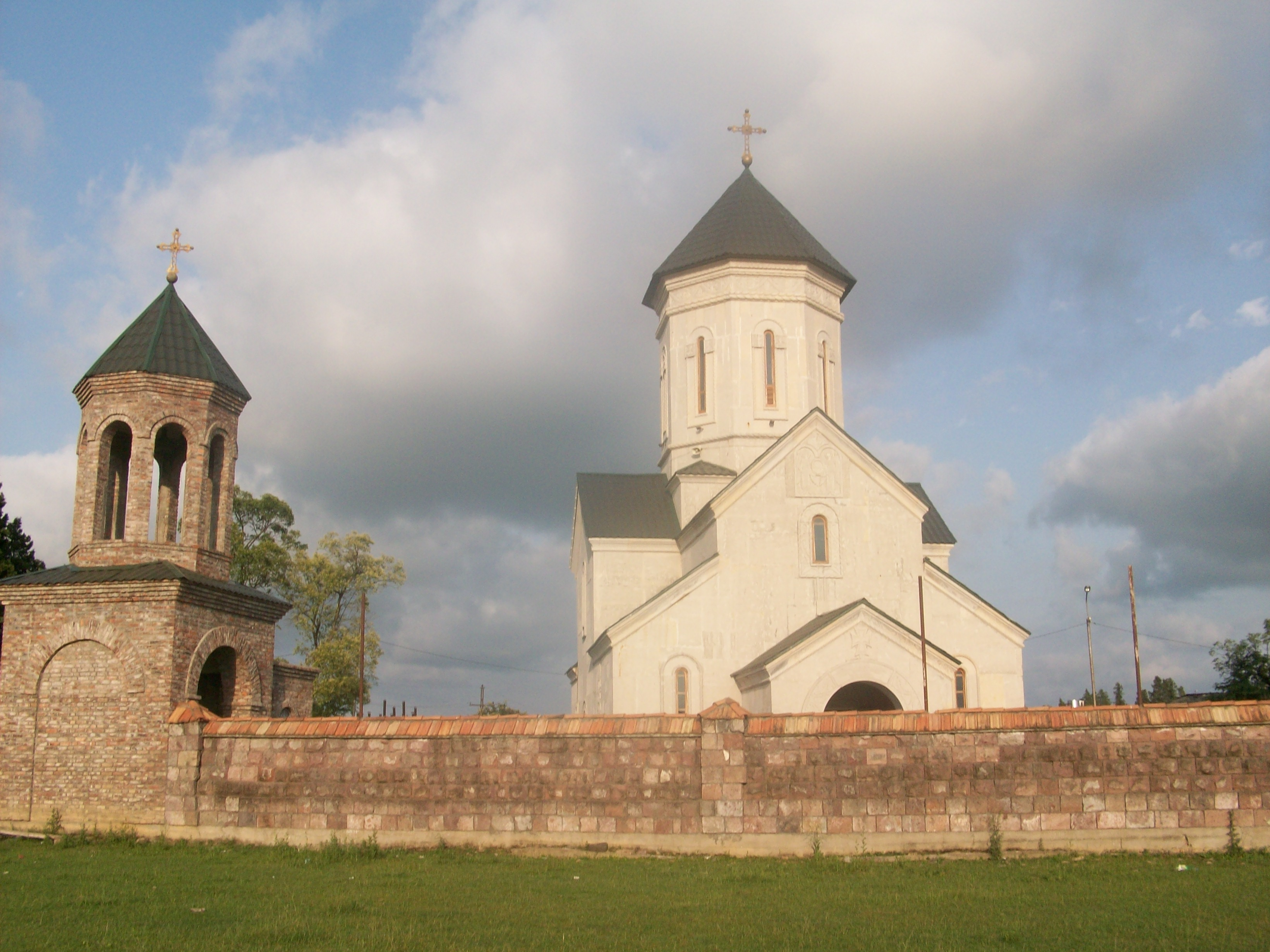 church in Zugdidi